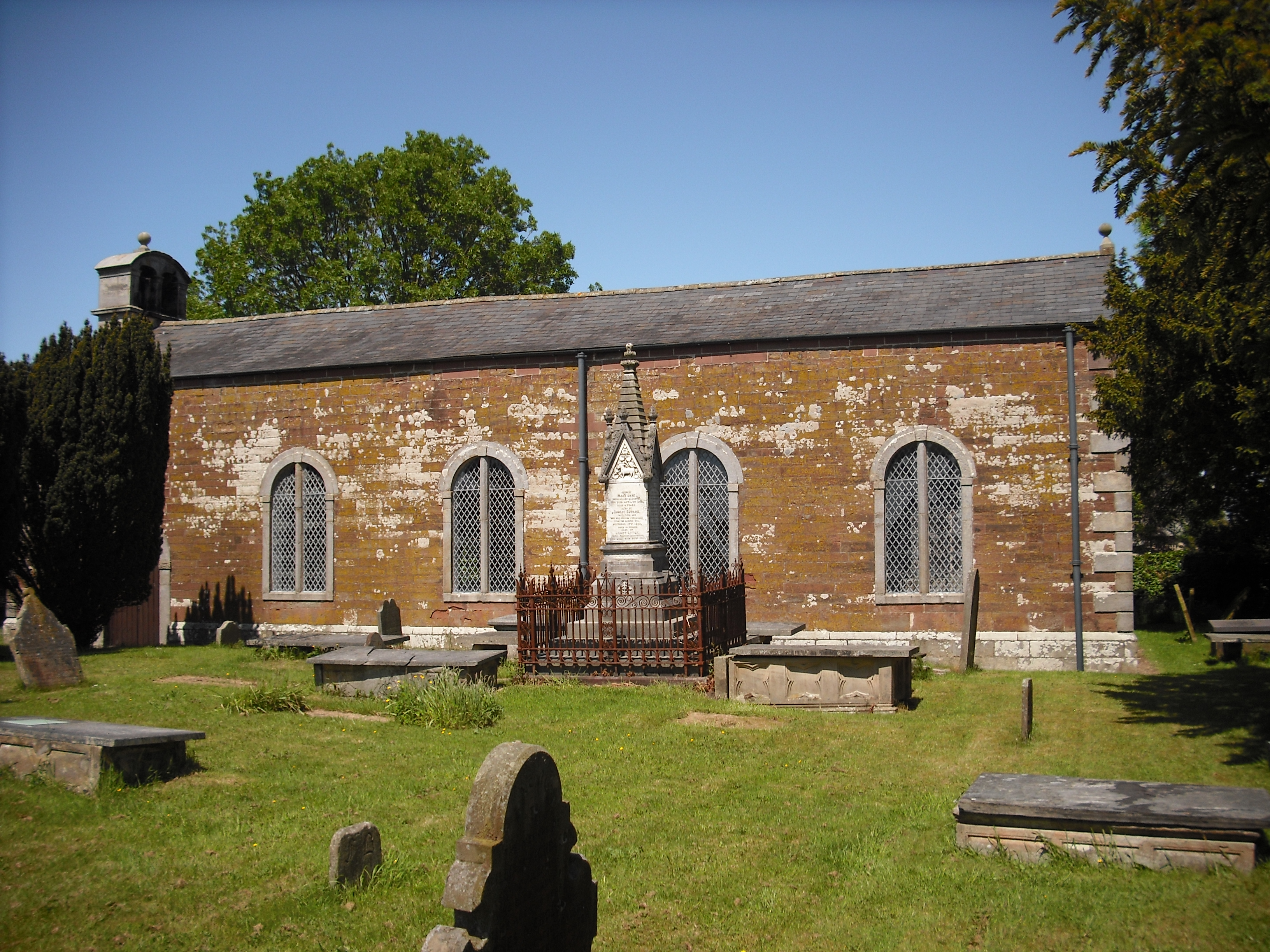 Old St John's, Pilling - front full